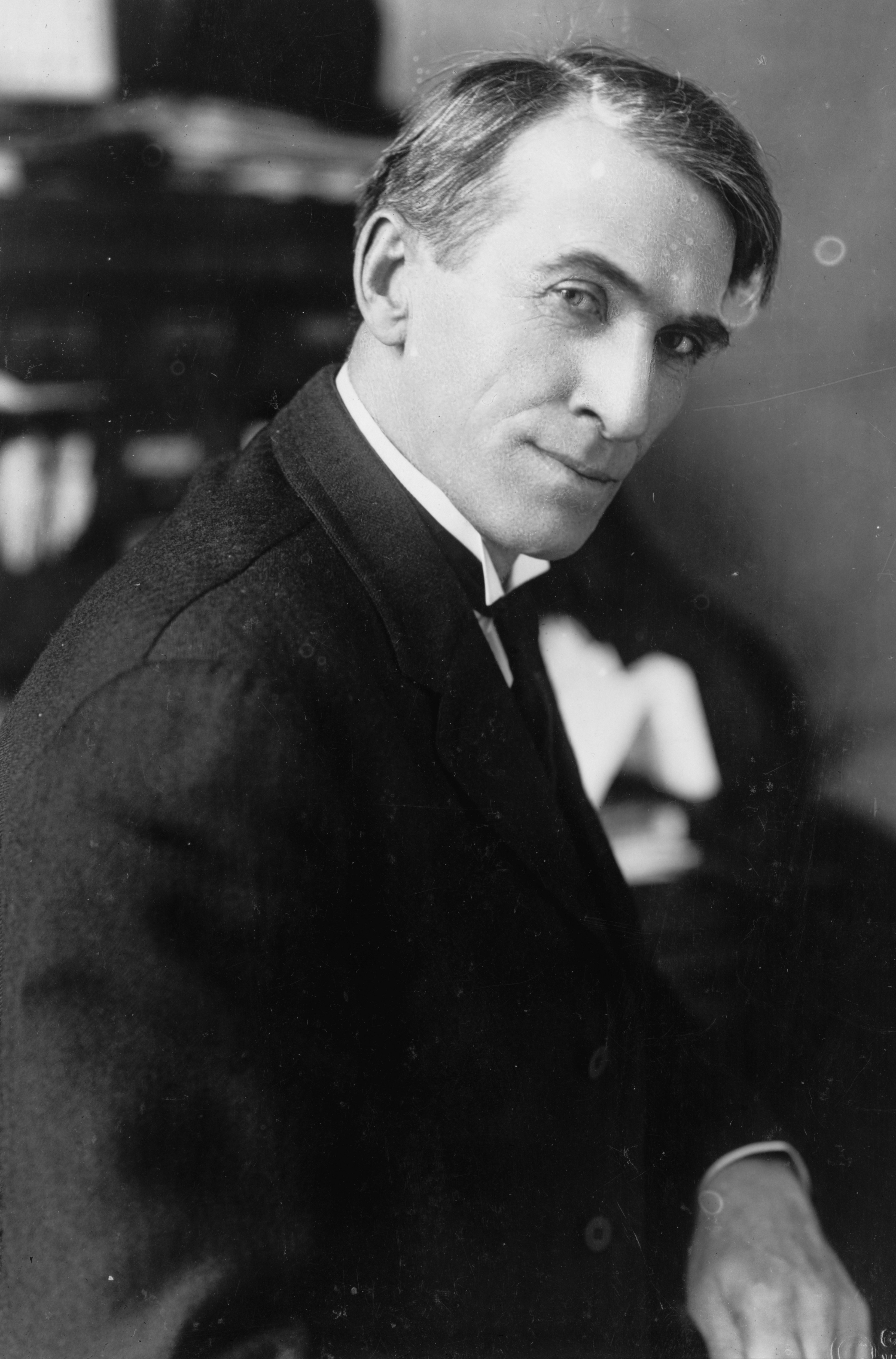 Title: Theron Akin, Progressive Republican congressman from New York state] / GV. Buck, Wash. D.C Abstract/medium: 1 photographic print.